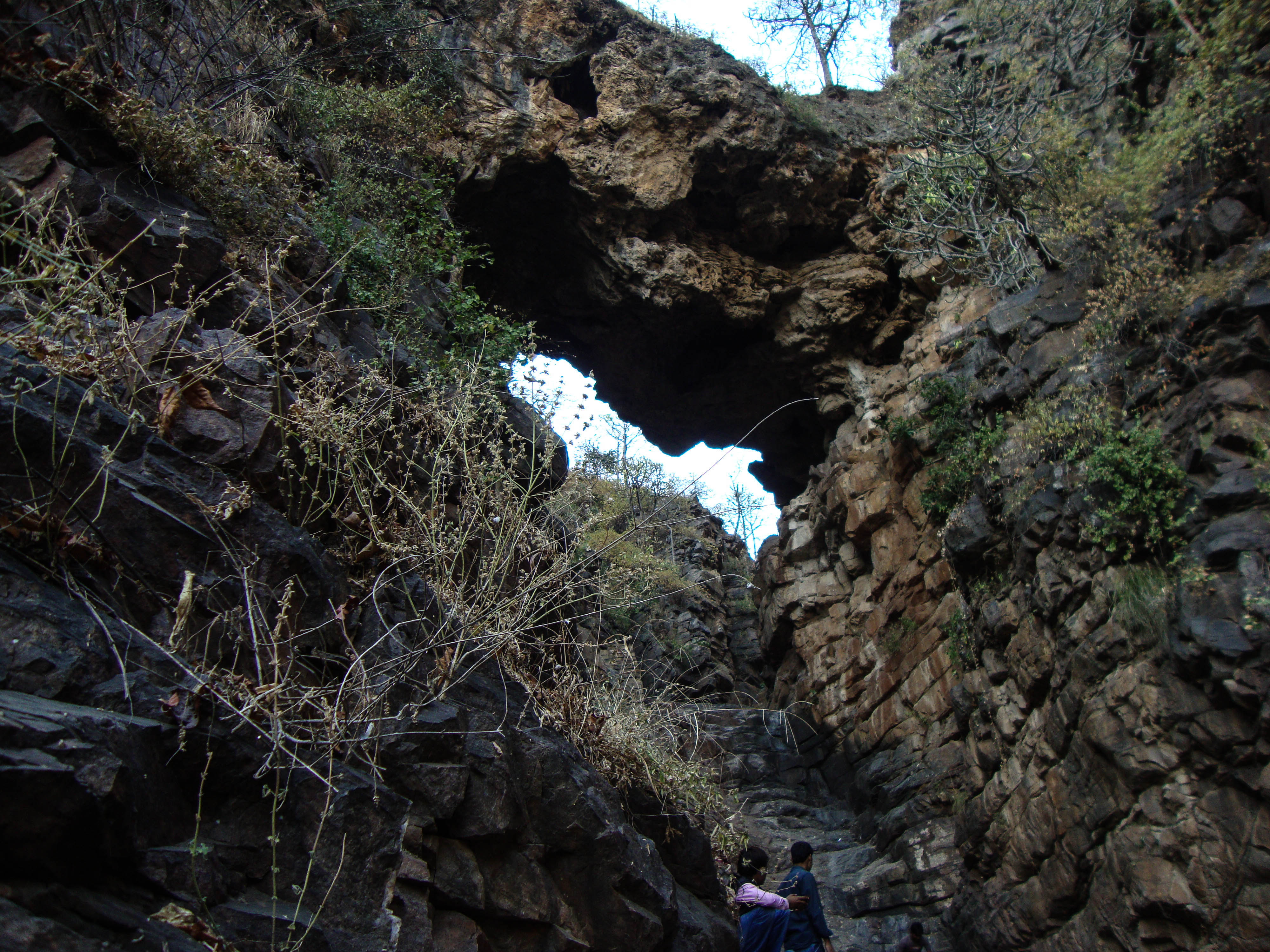 Ancient Remains